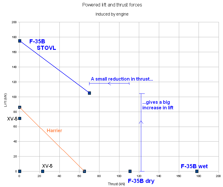 Graph of corresponding lift and thrust forces of various STOVL aircraft, including F-35B, Harrier, XV-5. Small version of LiftThrust1.PNG